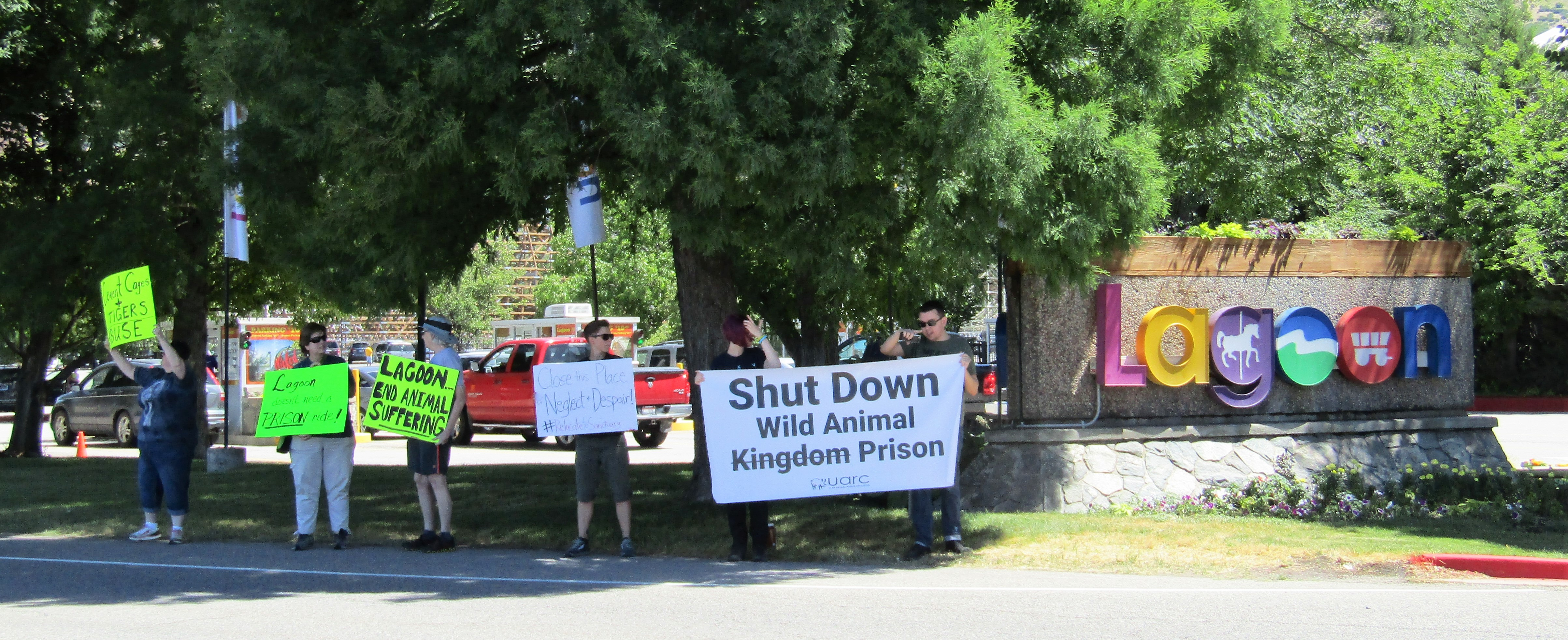 Protest outside Lagoon Amusement Park against the Wild Kingdom Train Zoo.